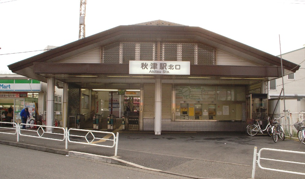 North exit of Akitsu Station on the Seibu Ikebukuro Line